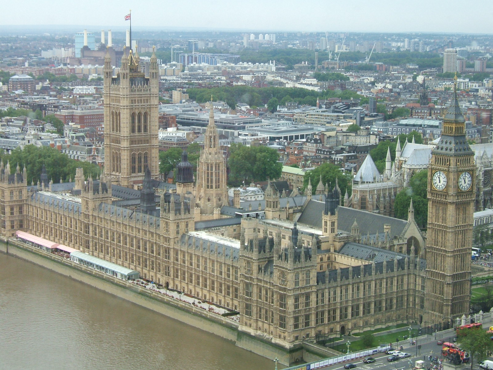 from the London Eye...Houses of Parliament and Big Ben